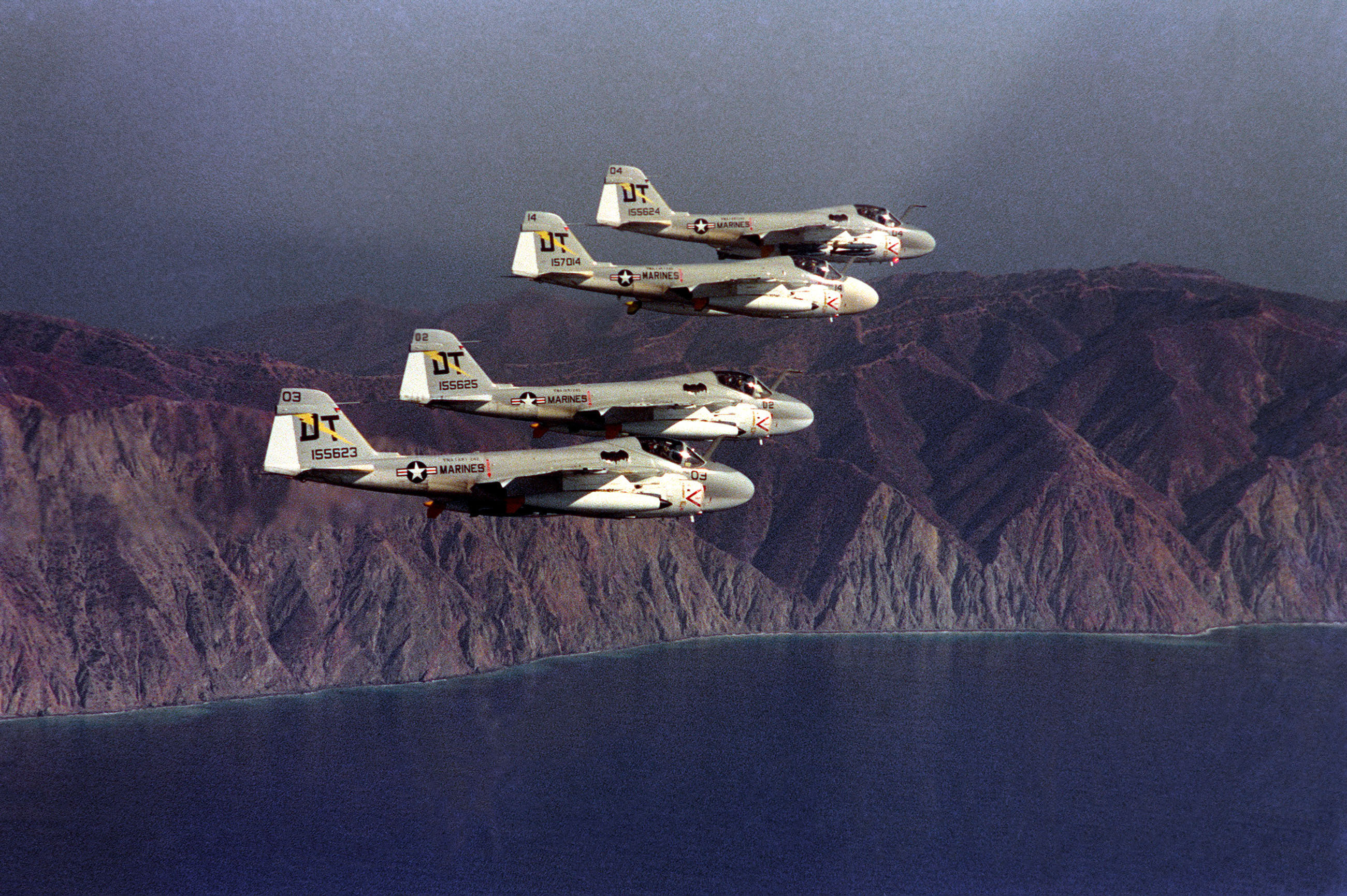 Four U.S. Marine Corps All-Weather Medium Attack Squadron 242 (VMA(AW)-242) Grumman A-6A Intruder aircraft (BuNo 155623, 155624, 155625, 157014) flying in echelon formation on 21 November 1975.